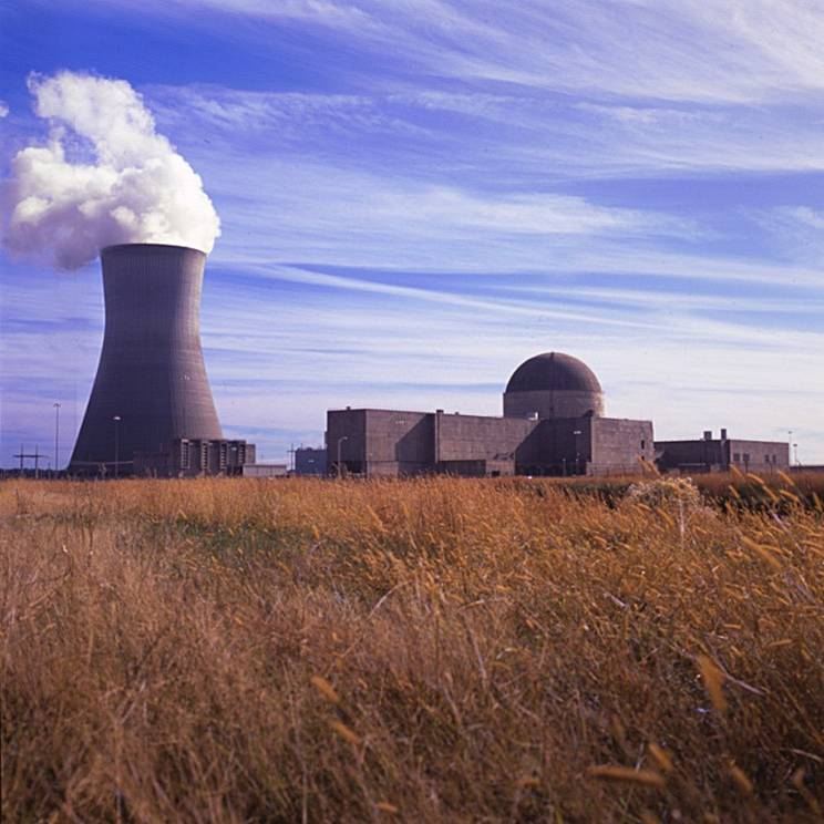 Shearon Harris Nuclear Power Plant. Unit 1. Copied from the NRC web site, which is operated by the US government. [1]